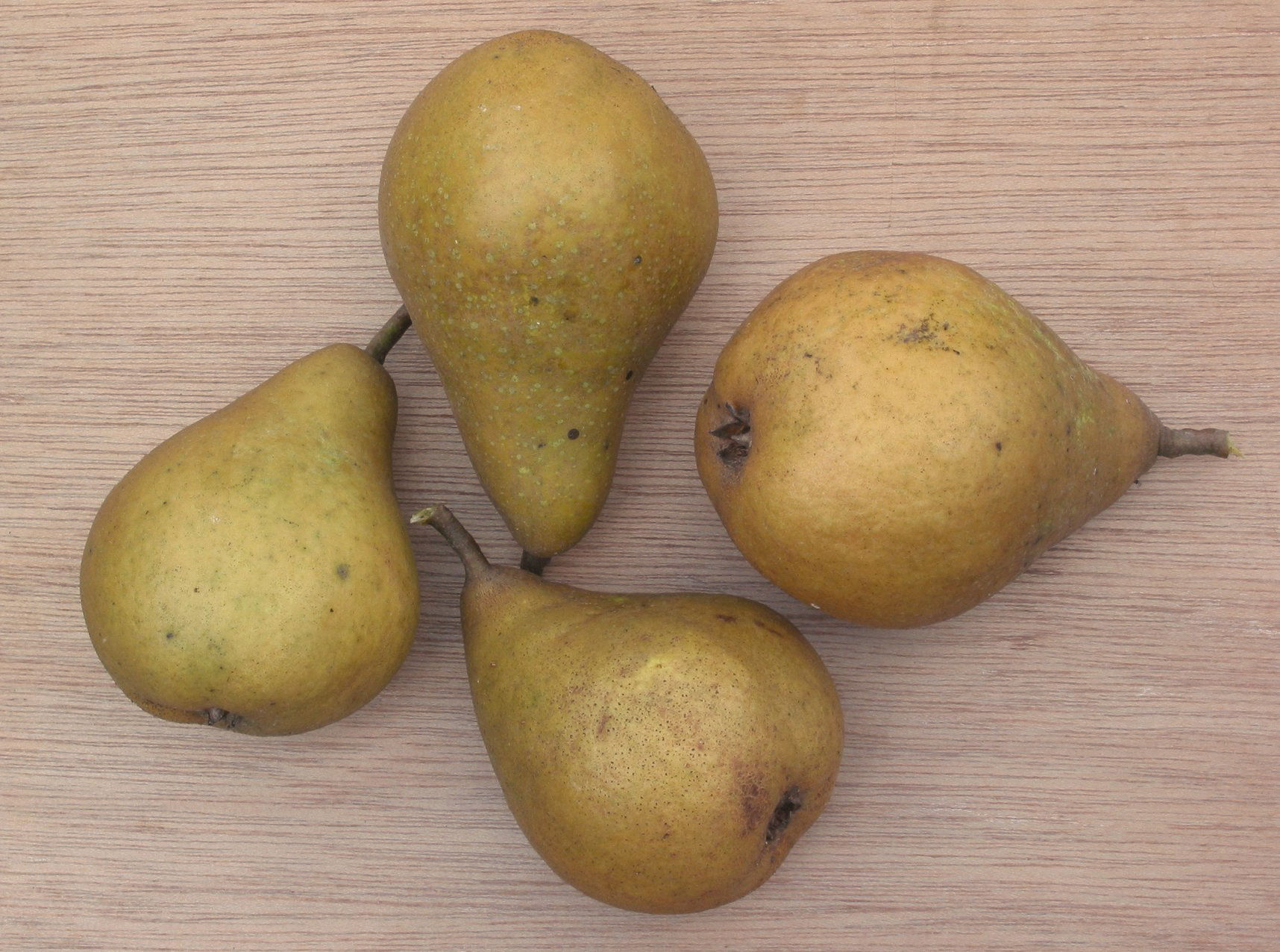 Pyrus communis 'Gieser Wildeman'